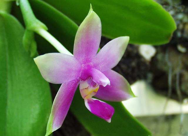 Phalaenopsis Violacea 'sumatra'